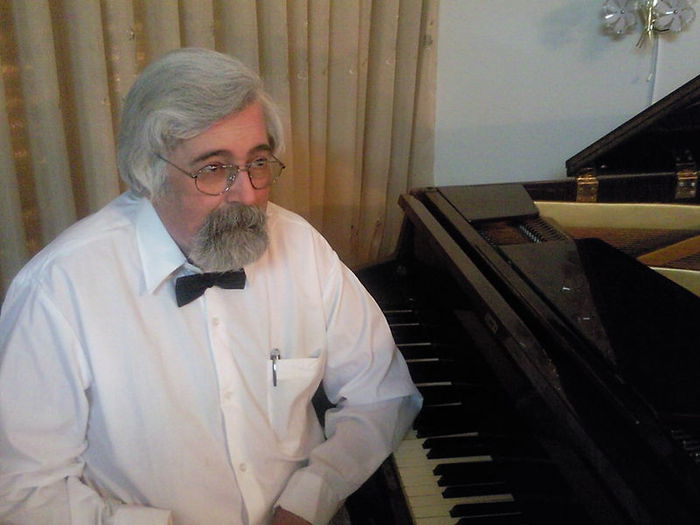 Me and my friend